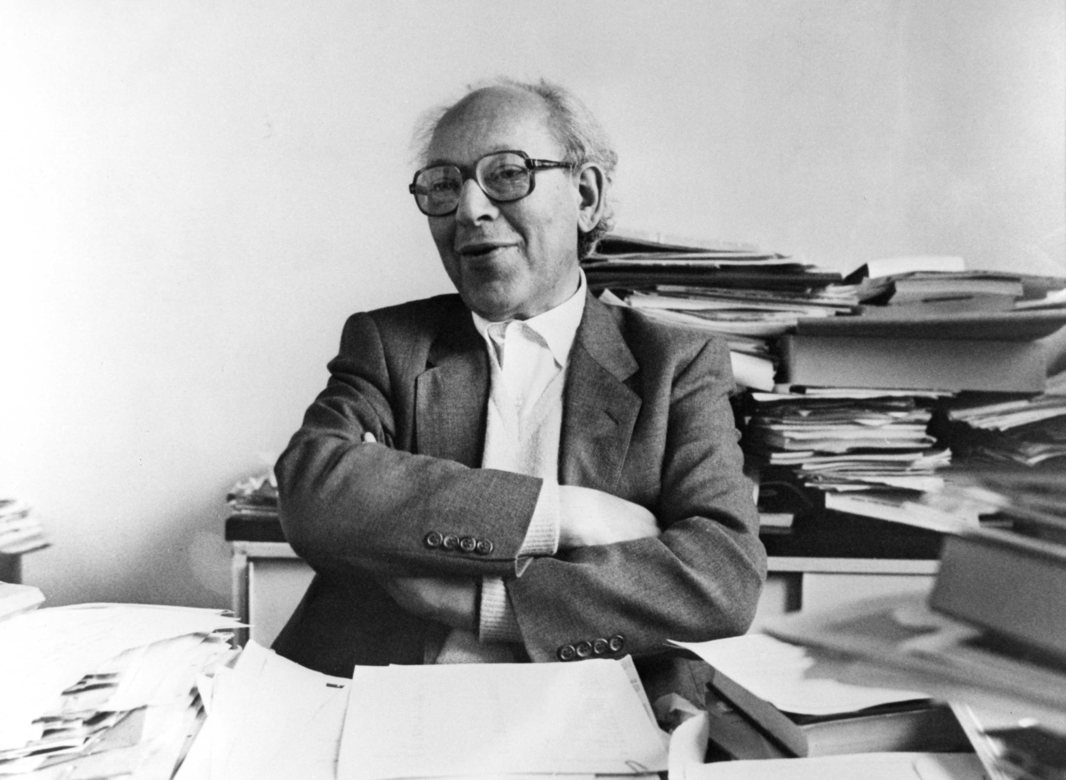 Jacques Ledoux, Erasmus Prize 1989. Photograph: Courtesy of the Praemium Erasmianum Foundation.